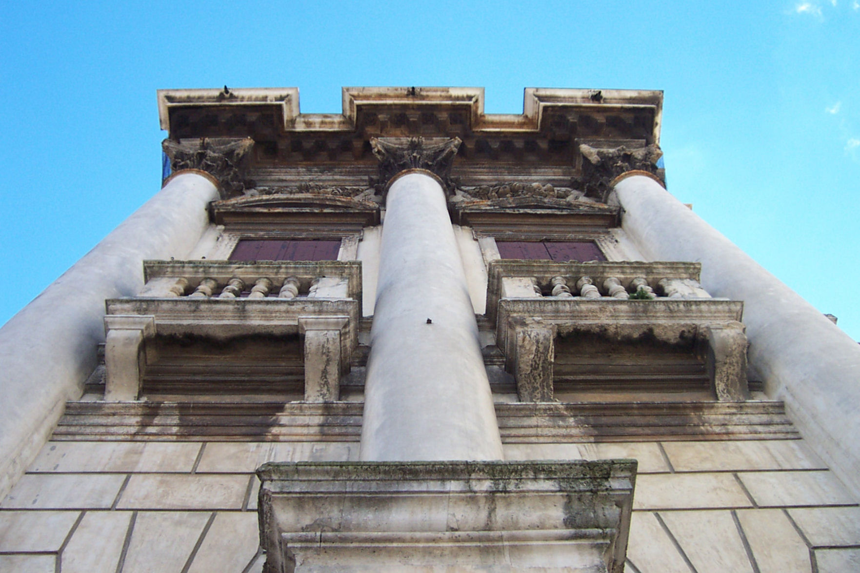 Closeup view of Palazzo Porto in Piazza Castello (Porto Breganze) by Palladio